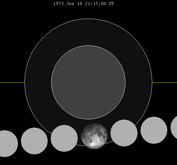 January 1973 lunar eclipse chart of moon's path through the earth's shadow. thumb